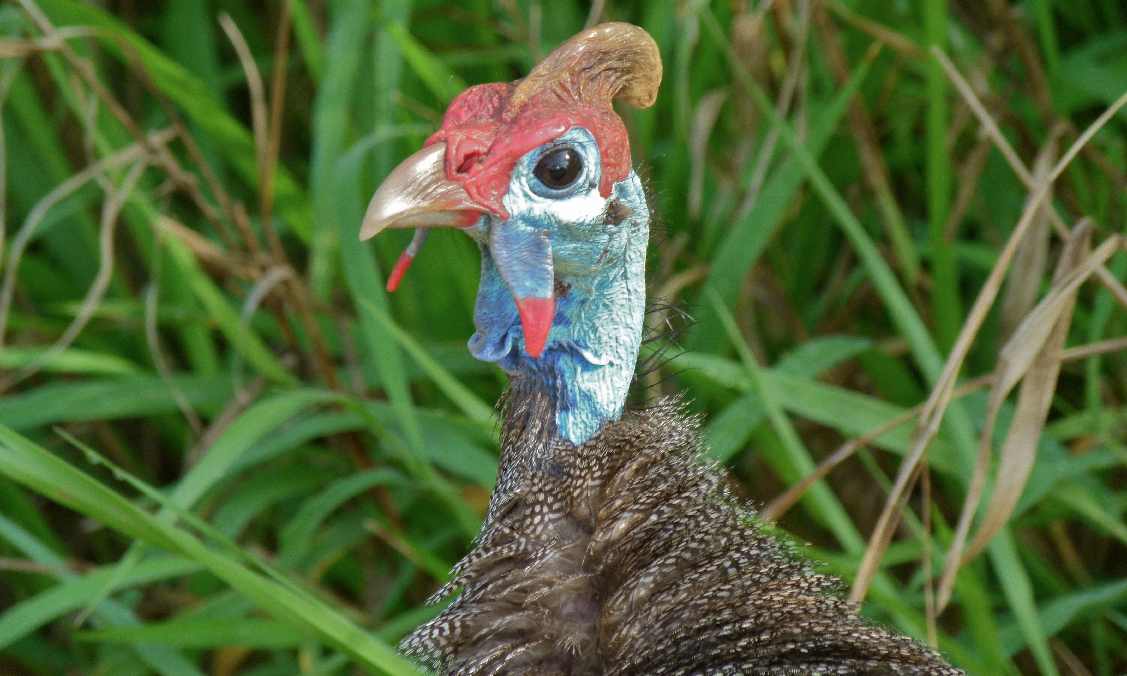 S29 North of Lower Sabie, Kruger NP, SOUTH AFRICA